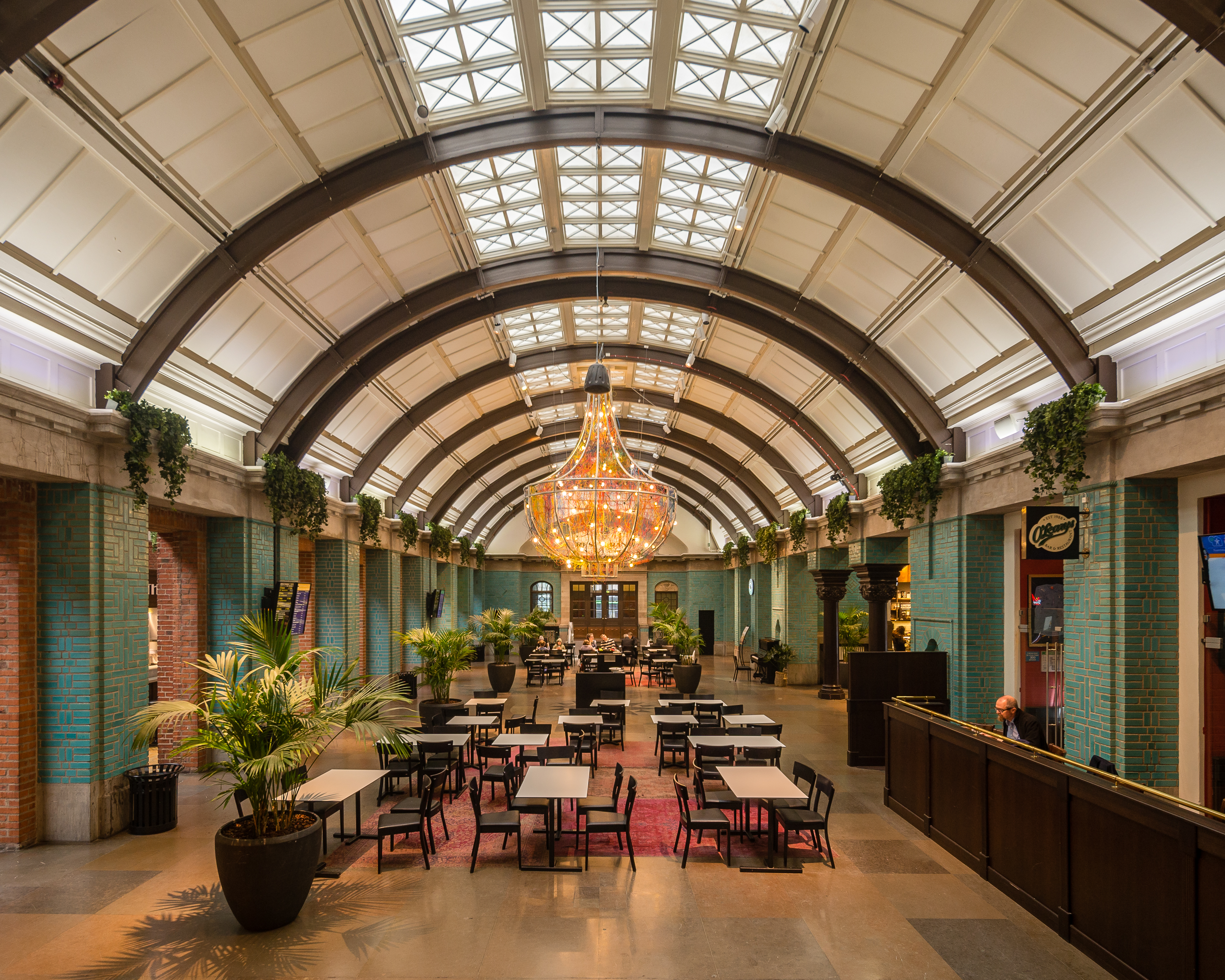 Malmö central station.